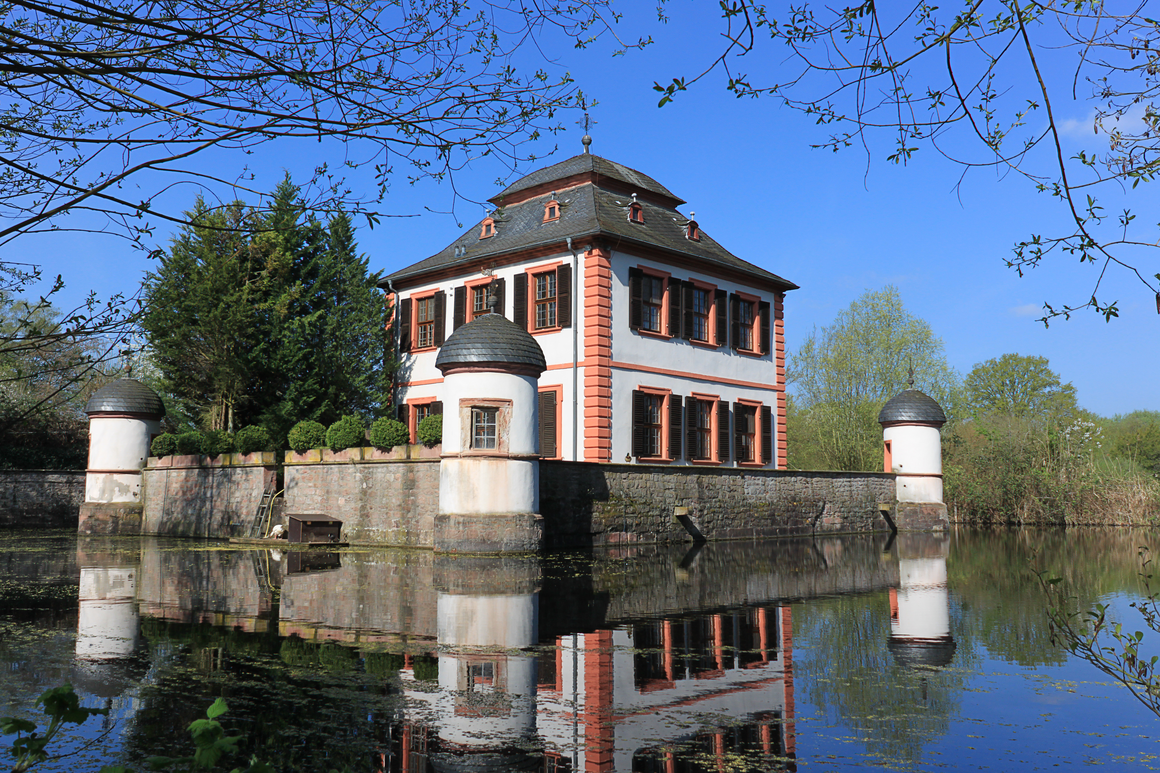 A castle built in water from Seligenstadt (Germany)